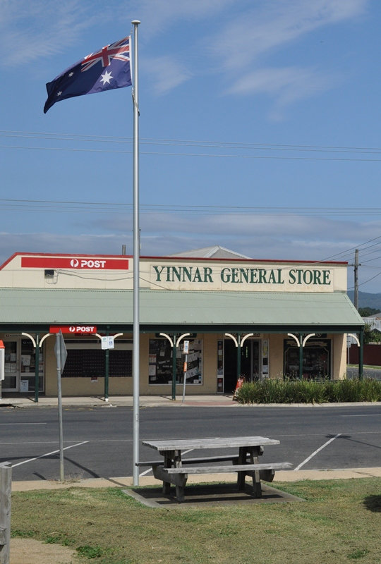 Yinnar General Store and Yinnar Post Office in Main Street Yinnar, Victoria, Australia.